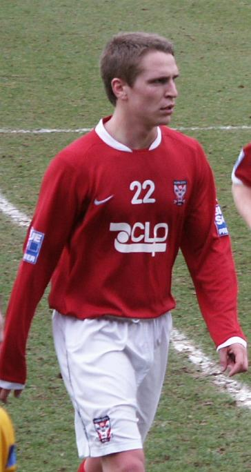 English football player Nicholas "Nicky" Wroe